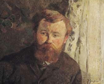 Depicted person: Achille Granchi-Taylor